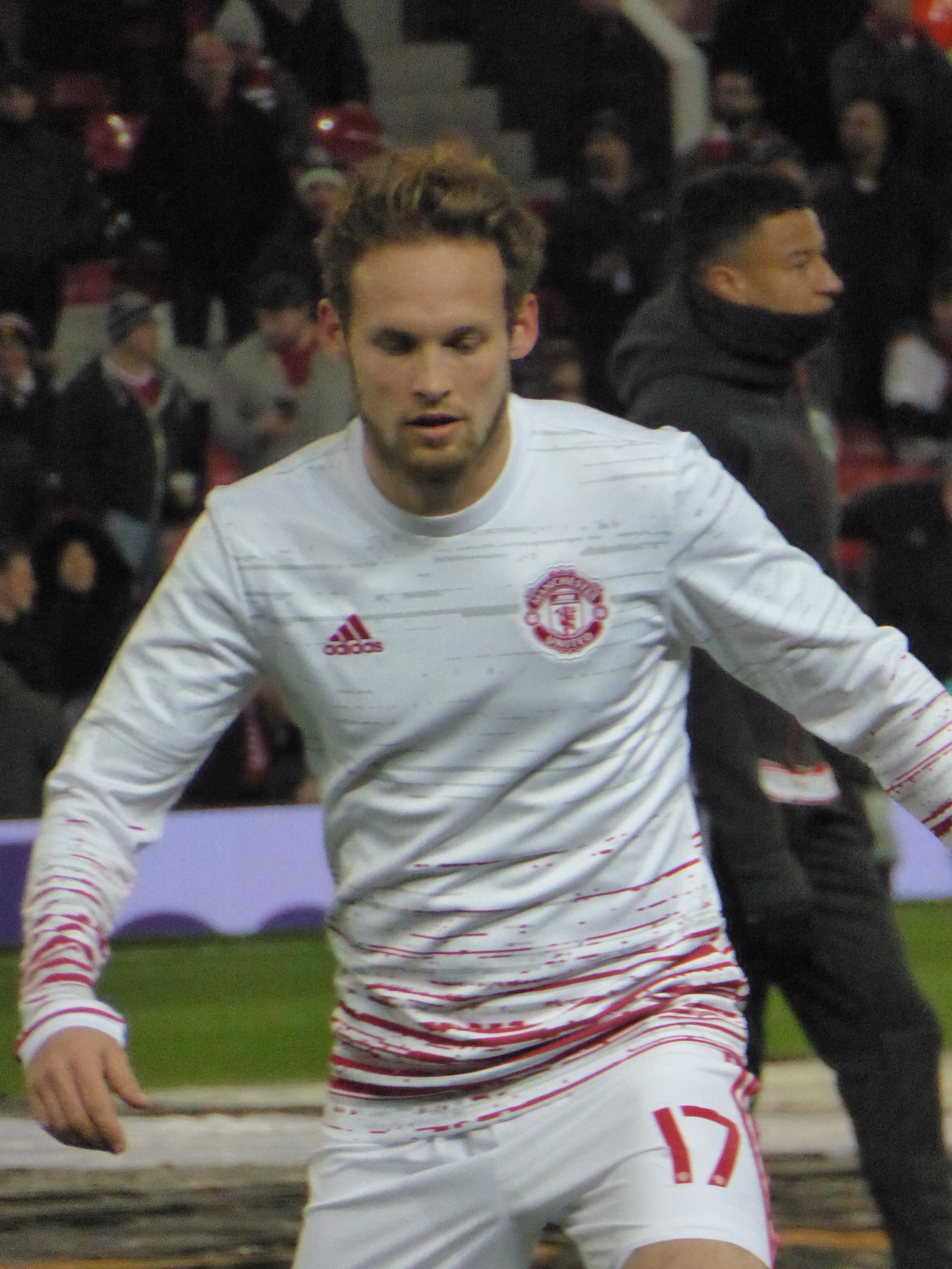 Manchester United v Feyenoord (4-0), Europa League, Old Trafford, Manchester, Greater Manchester, England, 24 November 2016